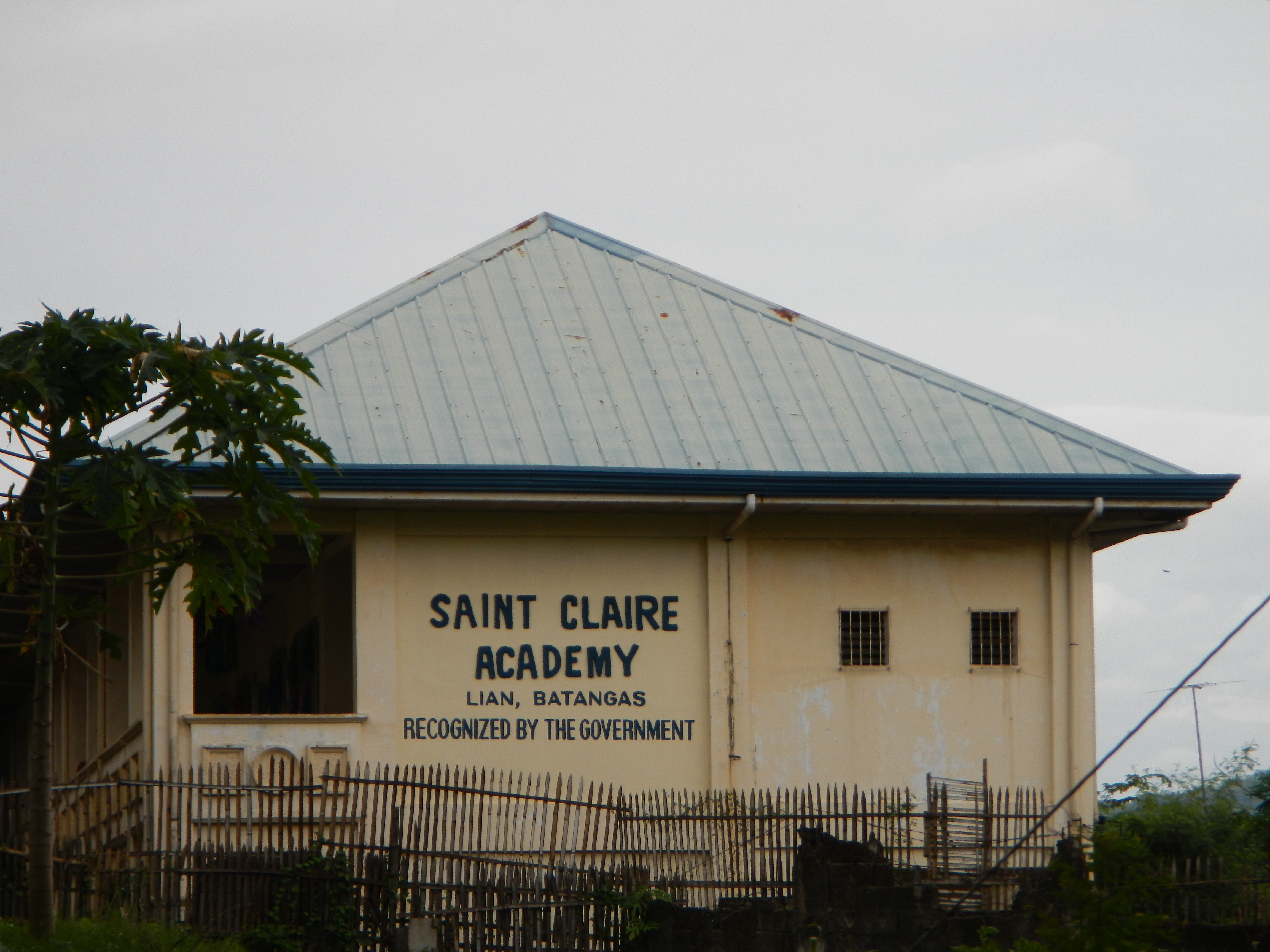 Upload Wizard photos of - the - a) Farner's Rural Bank, and Lian Municipal Hall (located in front of the Sangguniang Bayan of Lian, beside the Covered Basketball Court and Saint Clare Academy, Poblacion), c) National, Provincial Road, H. Lejano st. cor. JP Rizal st., and L. Baviera St., Barangay Poblacion 2, KM 100 LO, the Lian Municipal Hall and its Sangguniang Bayan Legislative Building and Session Hall beside the Covered Basketball Court, Rizal Monument, Knights of Columbus building, Children's Park, the Monument of Lian Martyrs executed by the Japanese on January 10, 1945 for loyalty to the allied causes and Marker of lone survivor Angel L. Limjoco, Jr. beside the Yale Children's School adjacent to the) - b) Archdiocesan Shrine of Saint John the Baptist of Lian - (August 29, 2011, Solemn Dedication - belongs to the Roman Catholic Archdiocese of Lipa [1] [2] [3] - Lian, Batangas[4].